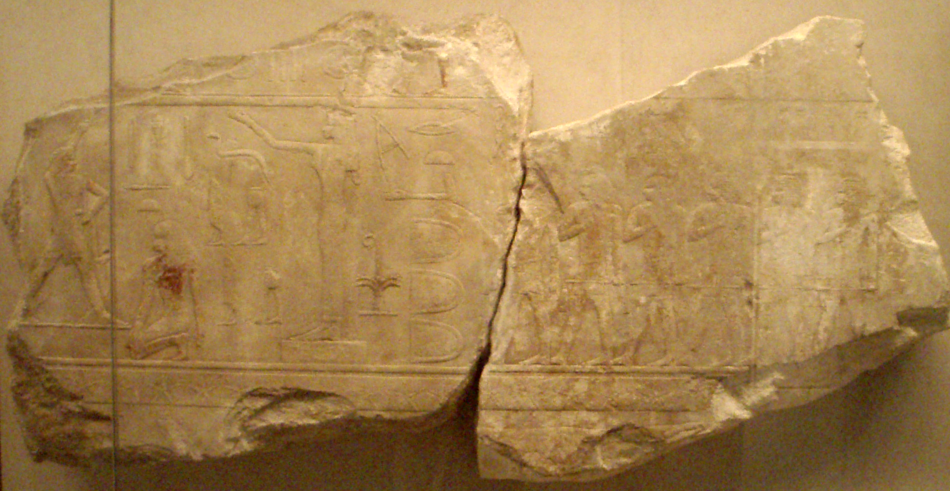 Scenes from a Sed Festival, thought to represent that of the pharaoh Snefru. This piece was "re-used" in the building of the Middle Kingdom pyramid complex of Amenemhat I. Circa 2575-2551 B.C.